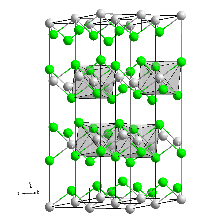 crystal structure of Cadmium chloride